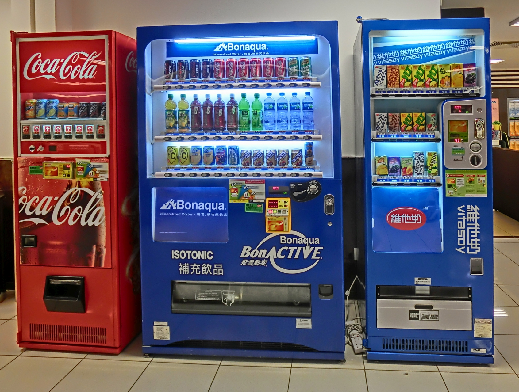 Beverage vending machines in Lok Fu Plaza, Lok Fu Estate, Wong Tai Sin District, Hong Kong